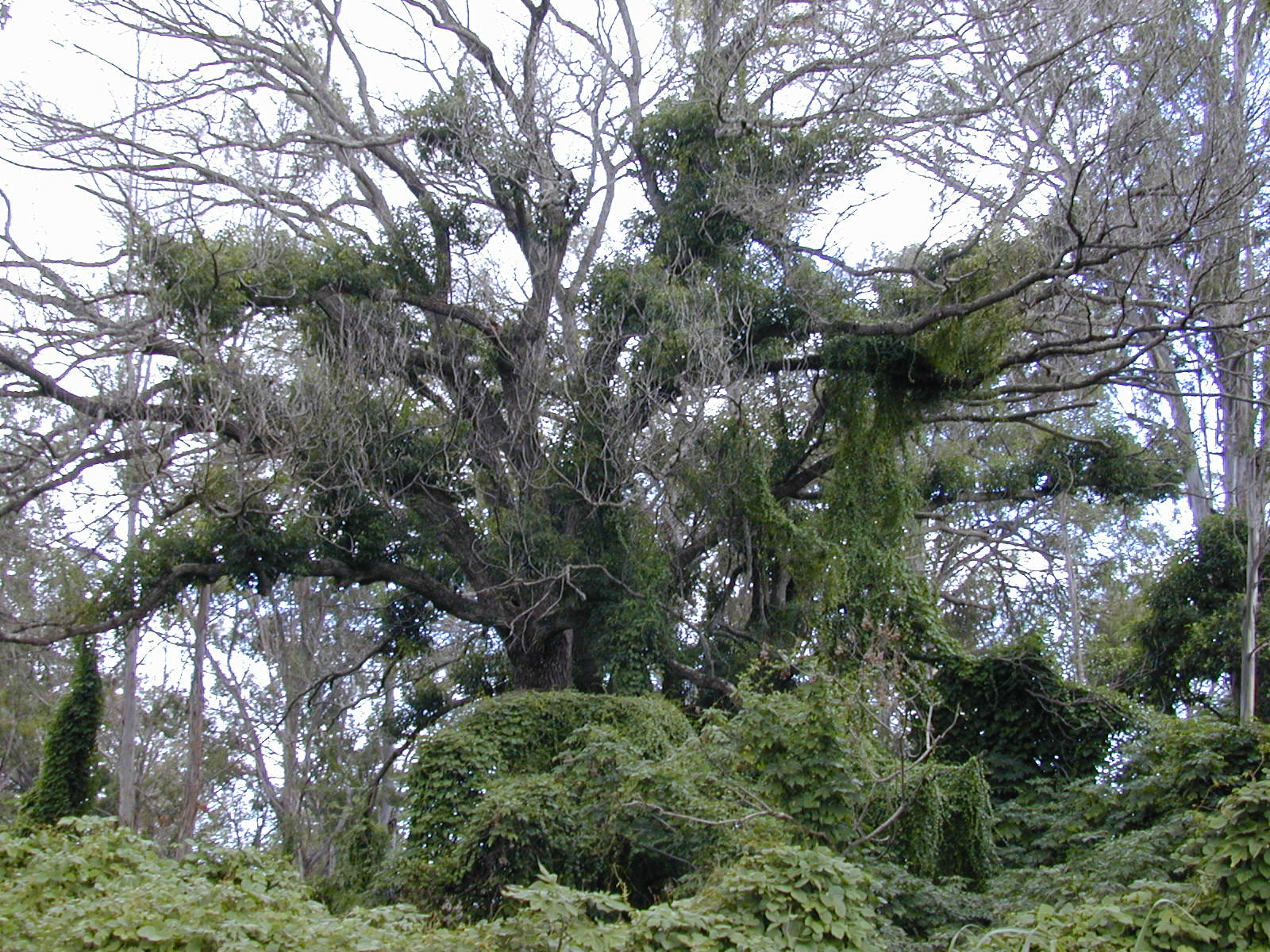 Anredera cordifolia (in Eucalyptus). Location: Maui, Ulupalakua